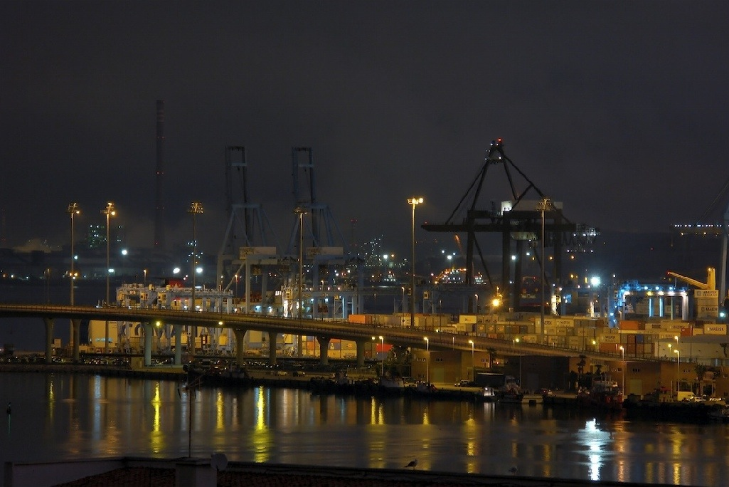 Dawn of the port of Algeciras.